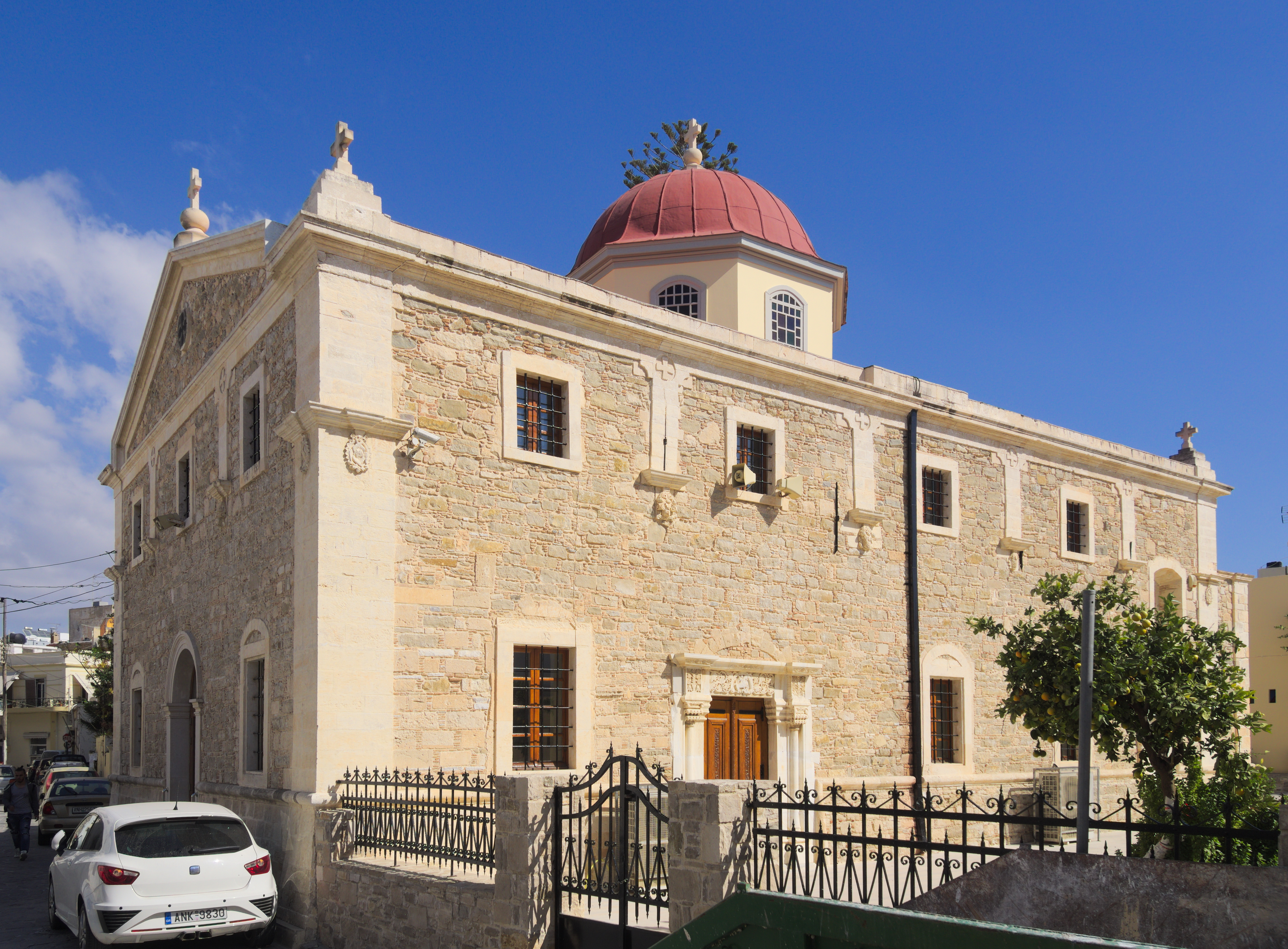 The old metropolitan church of Ierapetra, built in 1856, dedicated to Saint George.